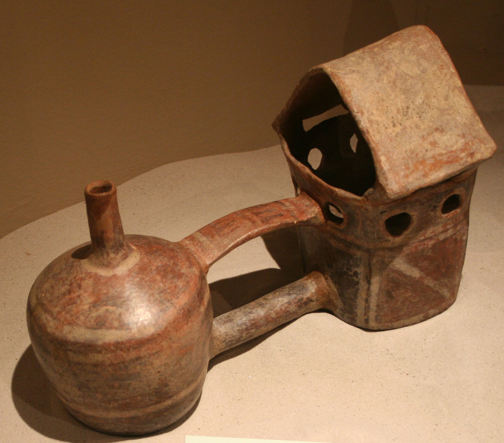 Roemer- und Pelizaeusmuseum, Hildesheim